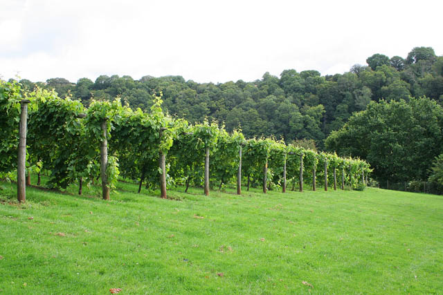 Dornfelder at Sharpham Vineyard These are red grapes which grow well on this south facing slope. The grapes are trained along wires at waist height which protects them from late frosts and aids picking. It doesn't protect the ripe fruit from badgers though: an electric fence is erected to protect the vines later in the season! The trees in the distance are on the opposite bank of the River Dart